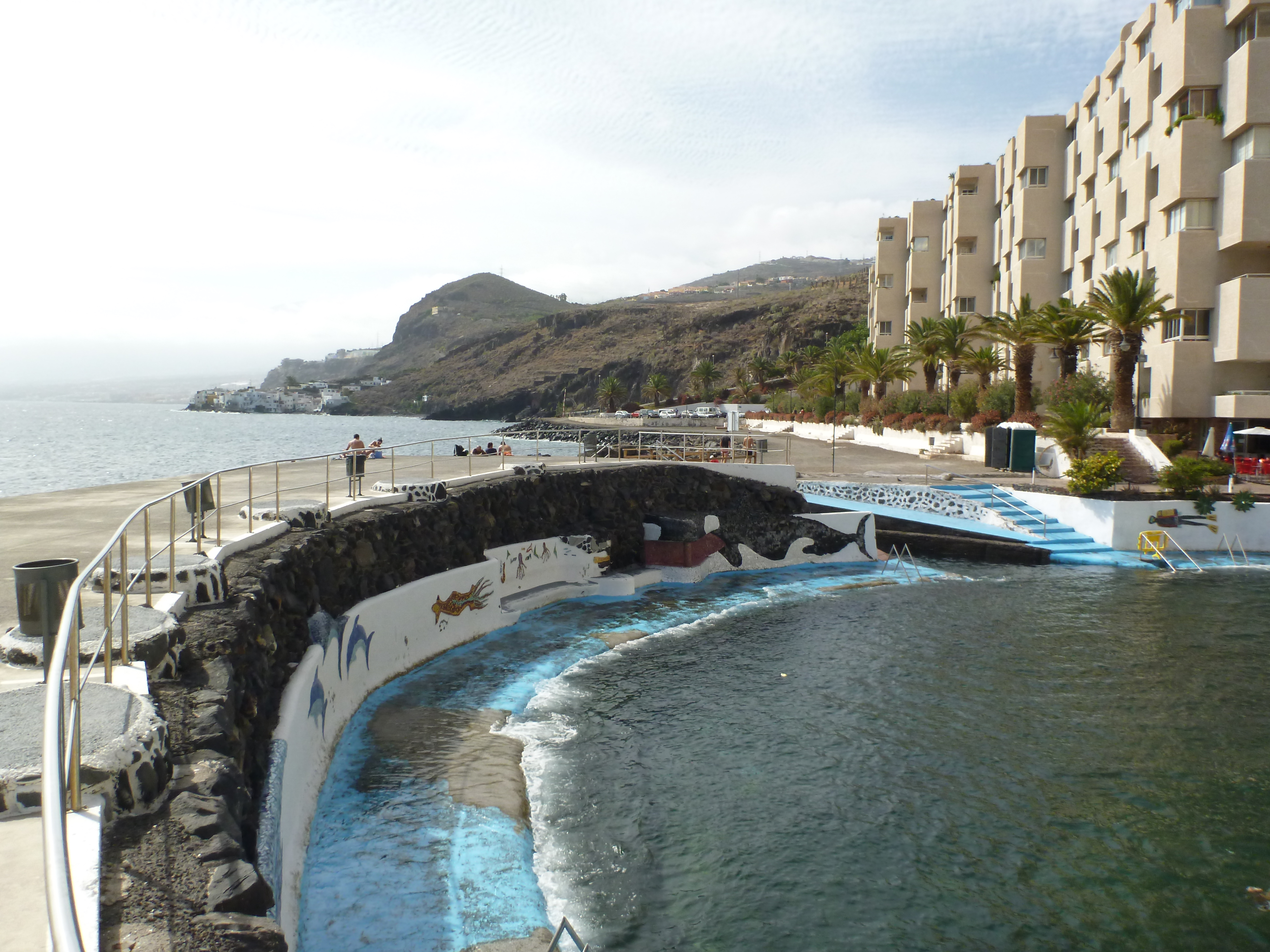 Tabaiba (El Rosario) pool with connection the the atlantic ocean